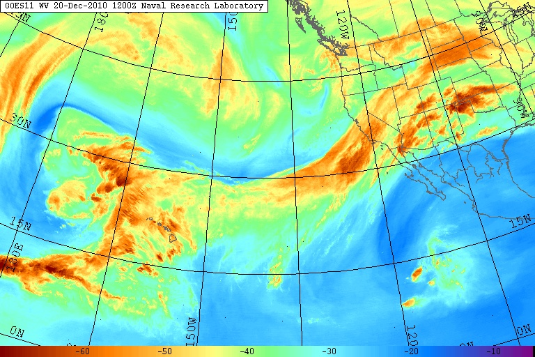 Water vapor imagery of the eastern Pacific Ocean from the GOES 11 satellite, showing a large atmospheric river aimed across California. Image from United States Naval Research Laboratory, Monterey. Current version of the image is located at this page on NRL website. The original source file listed below may be deleted from their server once it is older than 3 weeks, see list of archived versions.